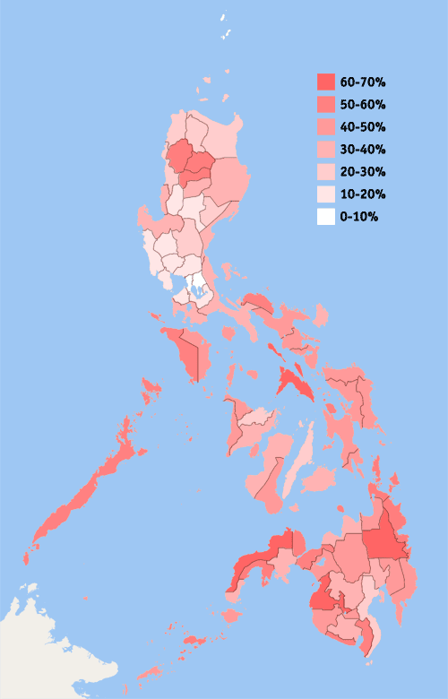 Poverty in the Philippines. Data based on 2003 figures available here.